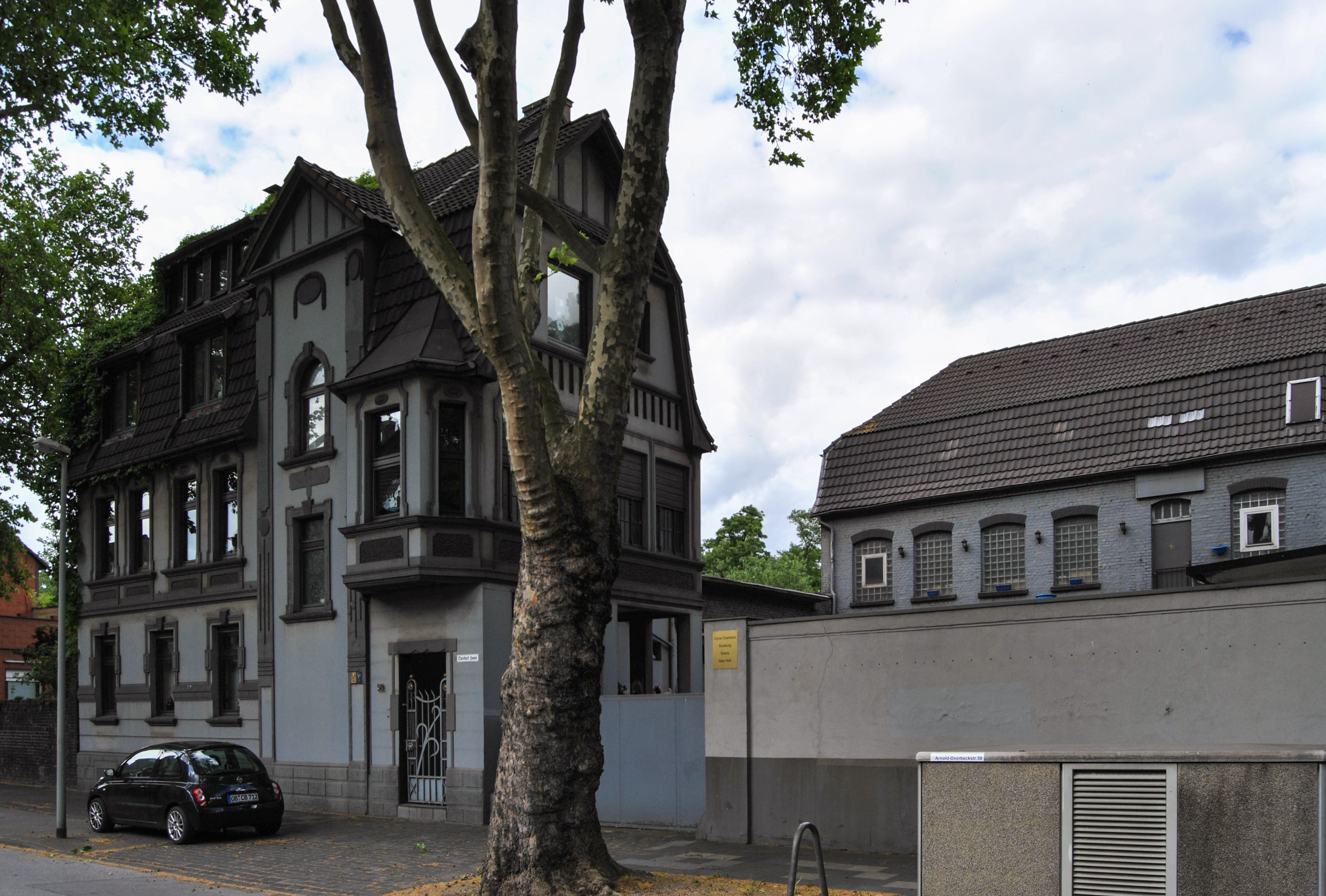 Duisburg (North Rhine-Westphalia, Germany) – borough Meiderich/Beeck, district Beeck – former Simons Bakery complex This image shows a heritage building in Germany, located in the North Rhine-Westphalian city Duisburg (no. 629). This photograph was taken with a Nikon D3000.